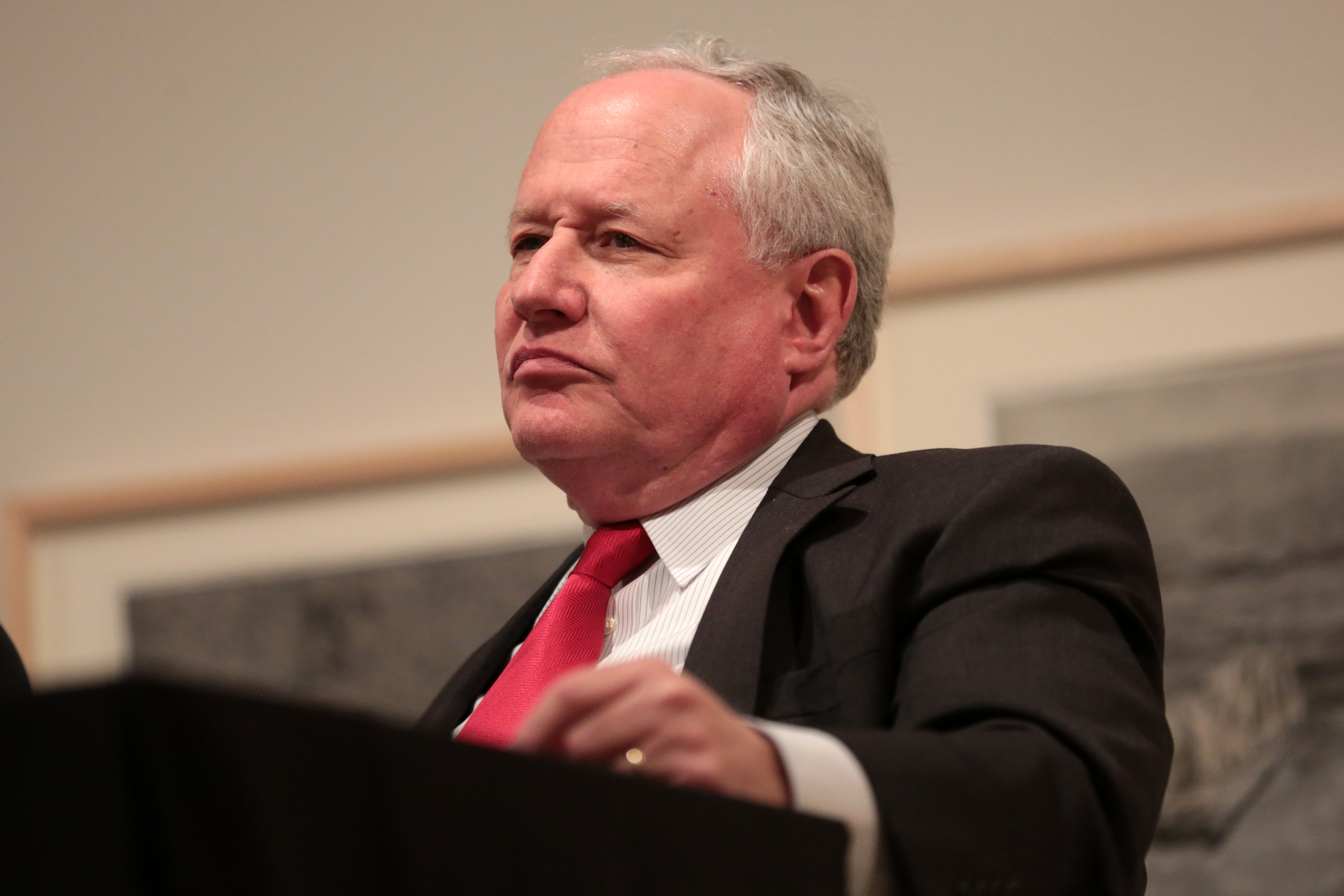 Bill Kristol speaking at the Art Museum at Arizona State University in Tempe, Arizona.